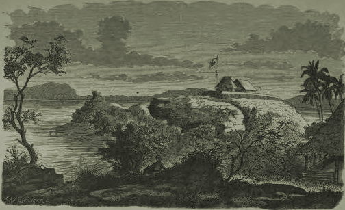 Picture of the early19th century "Fort Tapanoeli" on the isle Poncan Ketek near Sibolga, North Sumatra, Indonesia